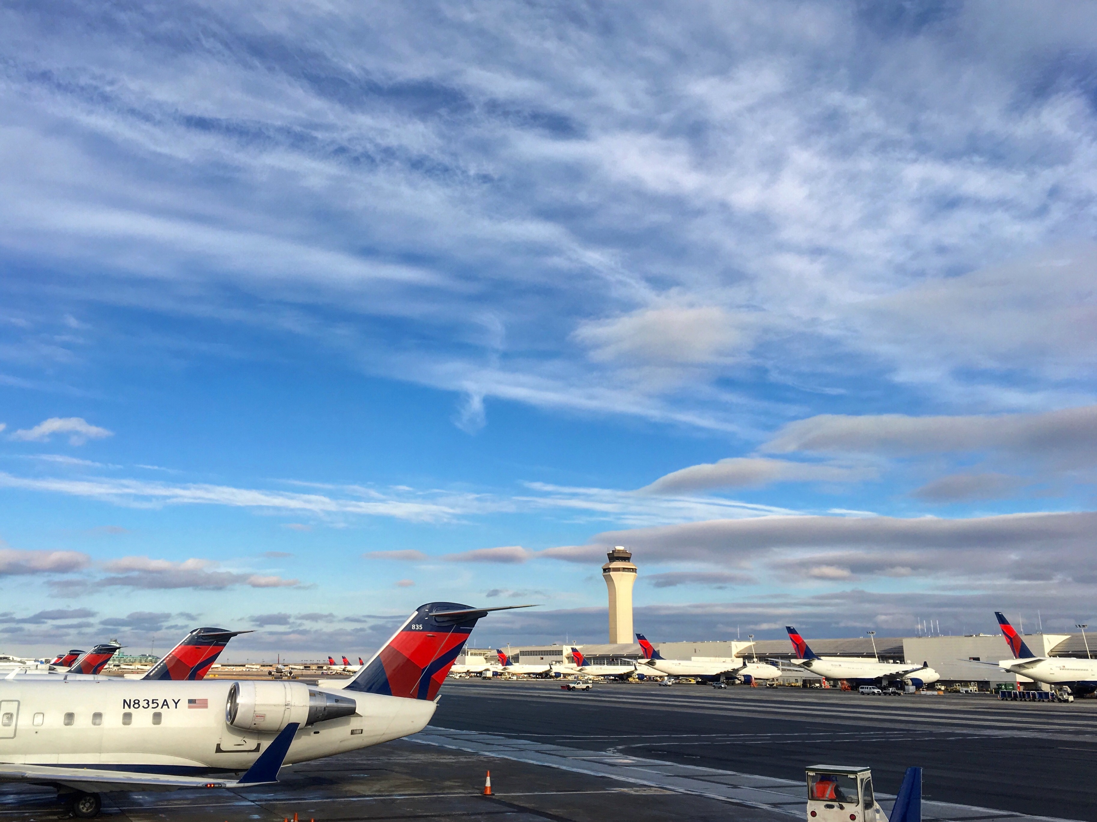 View of McNamara Concourse A from Concourse B/C